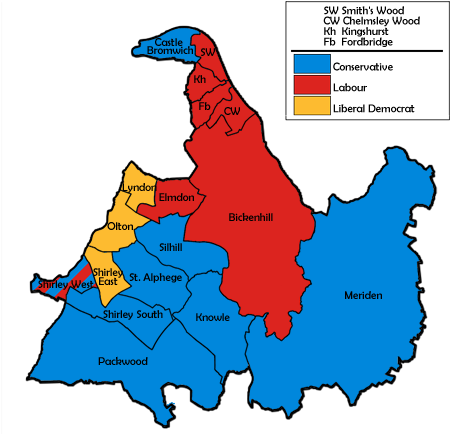 Ward map of Solihull Council with political colouring for the 1998 election. Striped wards denote mixed representation.